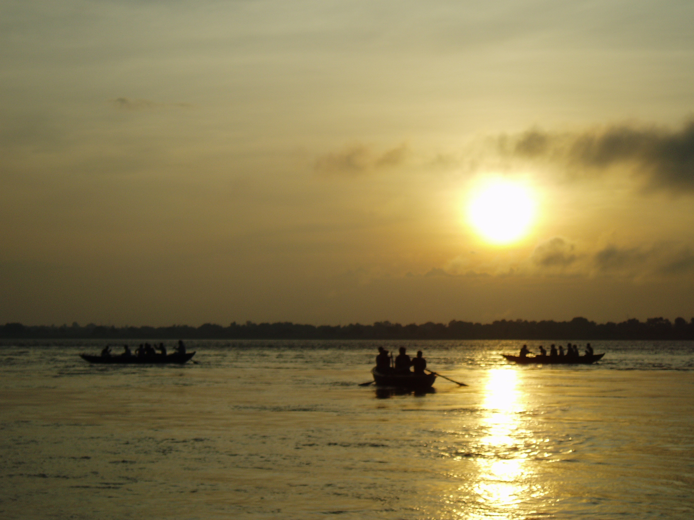 Dawn on the river Ganges, Varanasi (India).